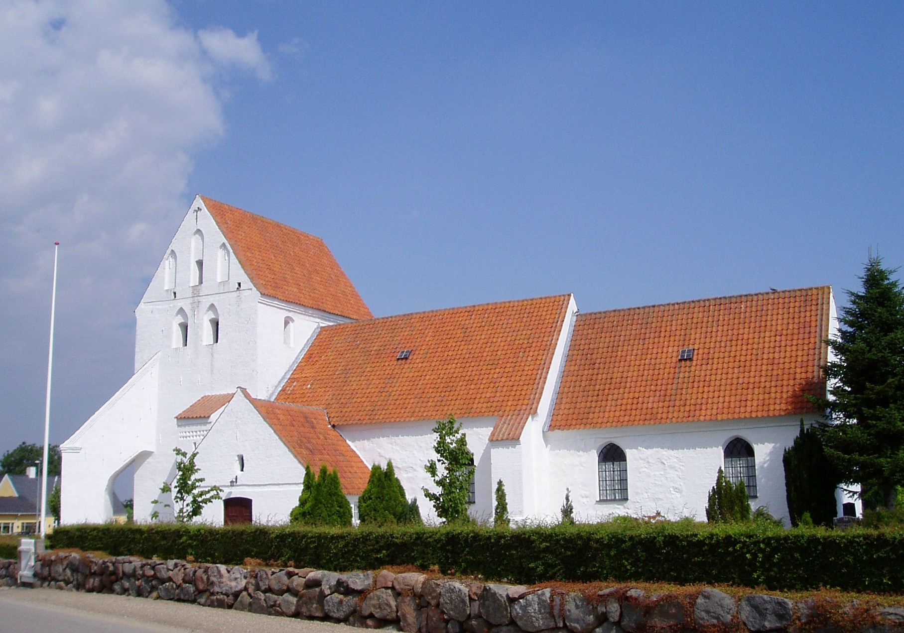 Øksendrup Church, Denmark.